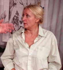 Actress Ljiljana Đurić in comedy Samo da znaš koliko te volim (Milenko Pavlov's own work given for free use)